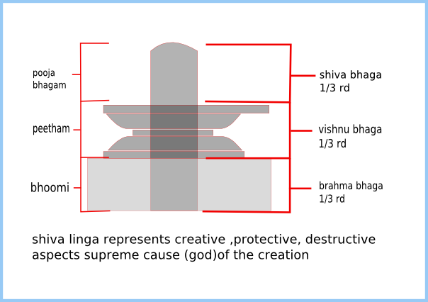 linga